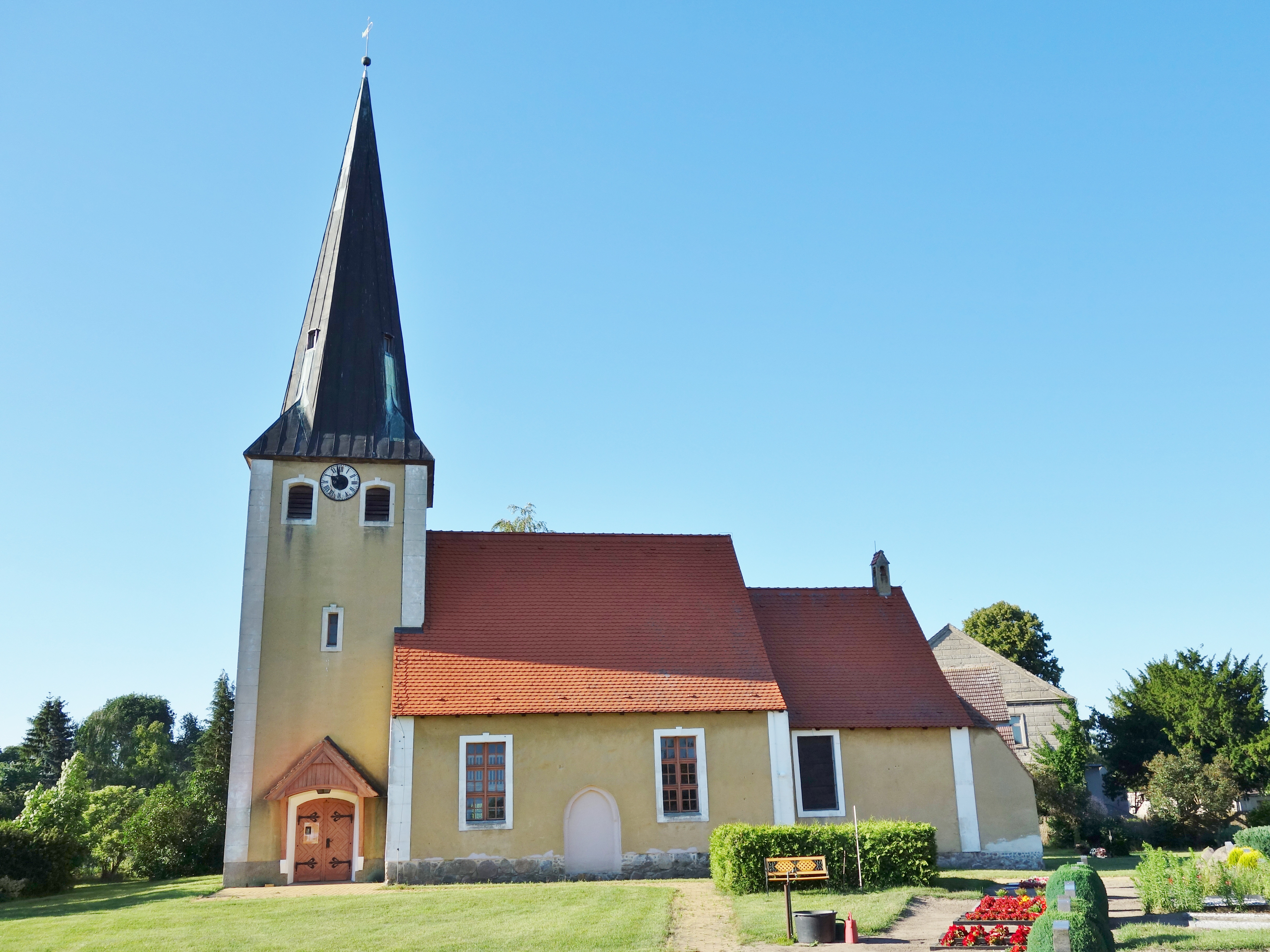 Southern view of church in Gräningen, Nennhausen municipality, Havelland district, Brandenburg state, Germany.